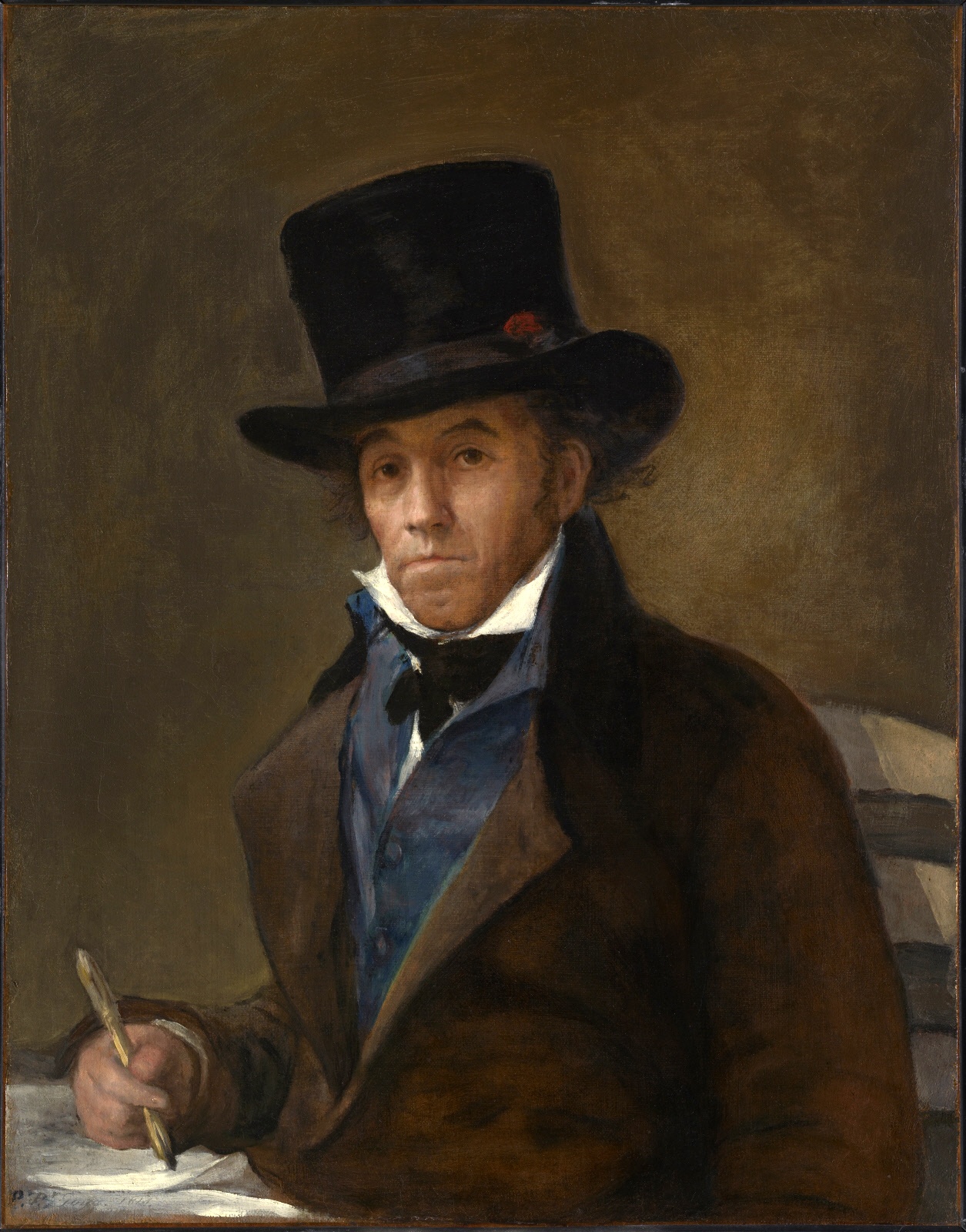 Portrait of Asensio Julià, painter and disciple of Goya